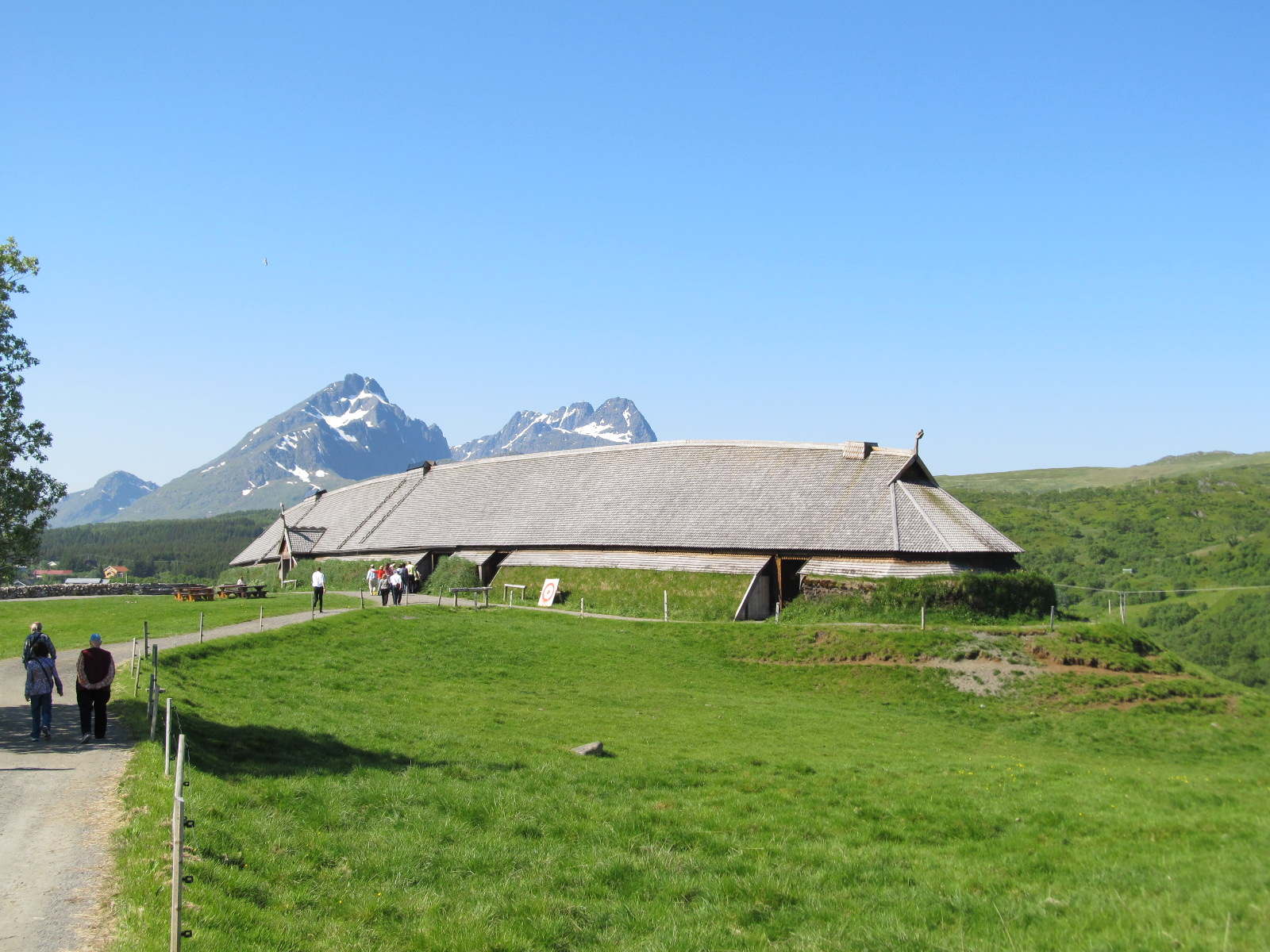 Loftr Viking Museum in Vestvågøy, Norway. Original description: Viking Museum of Leknes, Norway (4)